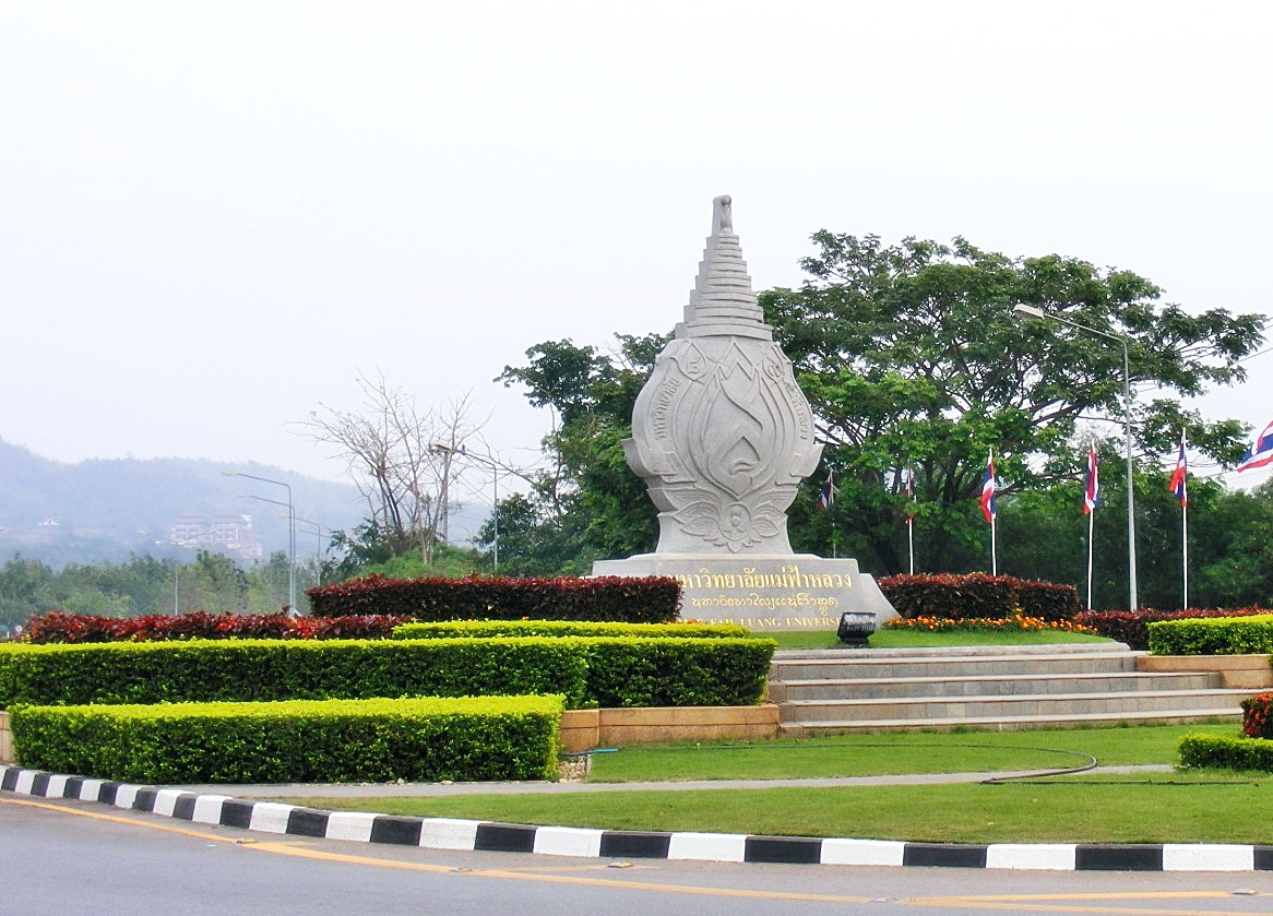 Mae Fah Luang university, Chiangrai, Thailand.